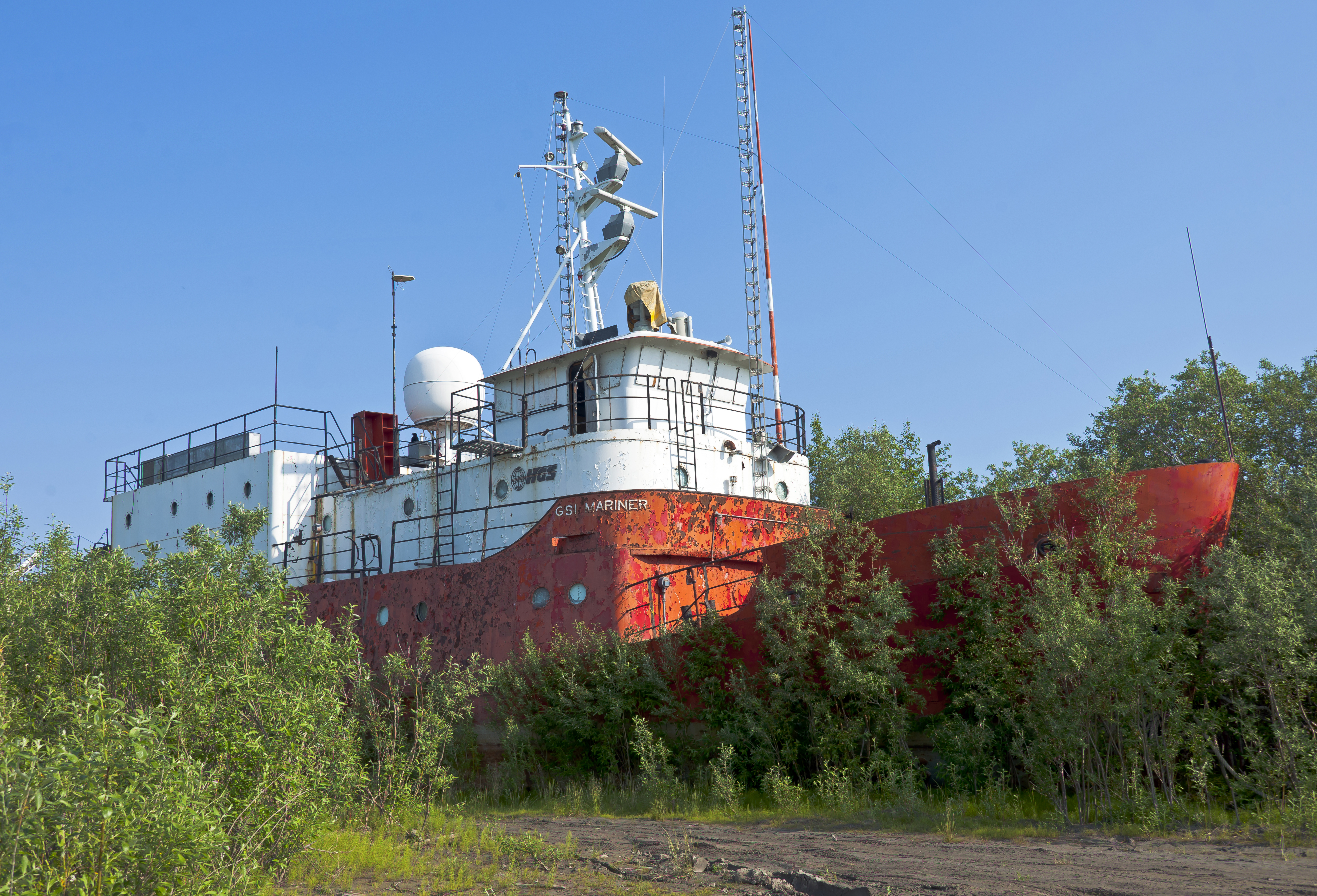 The GSI Mariner, a former seismic survey ship, on the banks of the Mackenzie River's east channel south of Inuvik, NT, Canada.